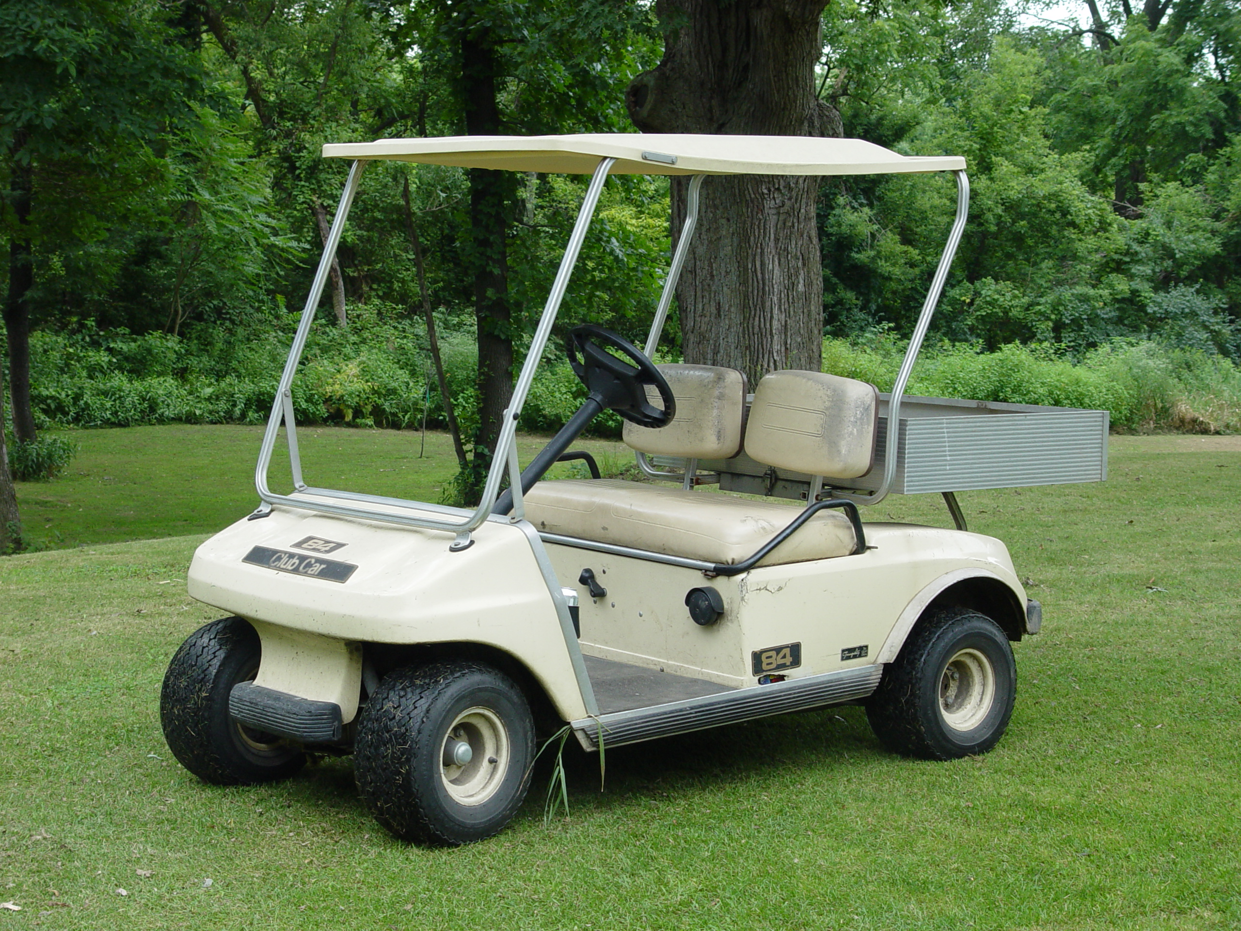 A picture of a Club Car 84 golf cart.